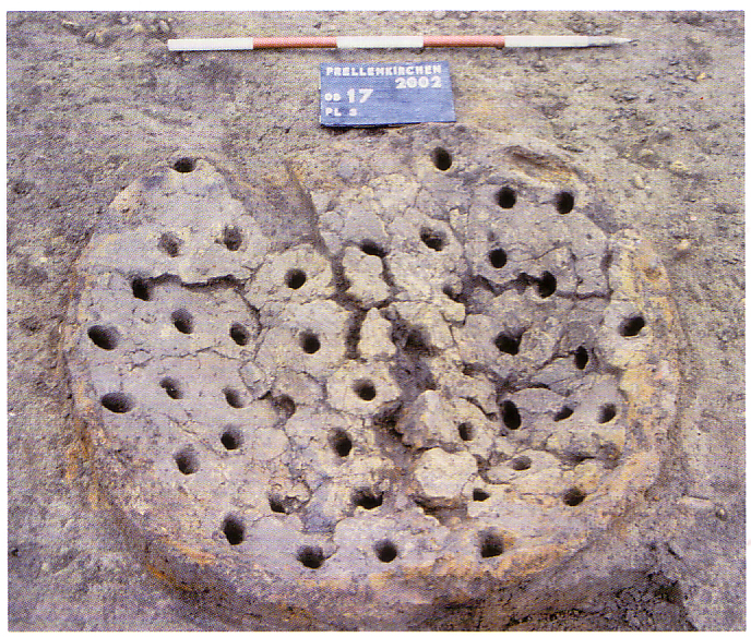 A part of celtic pottery klin